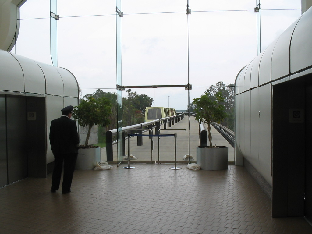 People mover at Orlando International Airport, May 2005